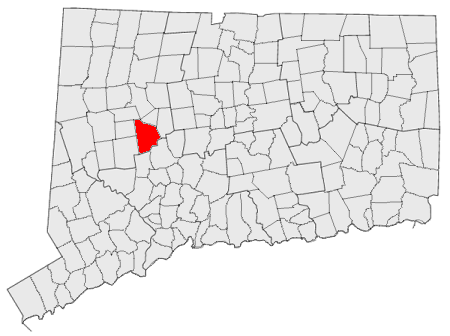 Locator map for Watertown, Connecticut